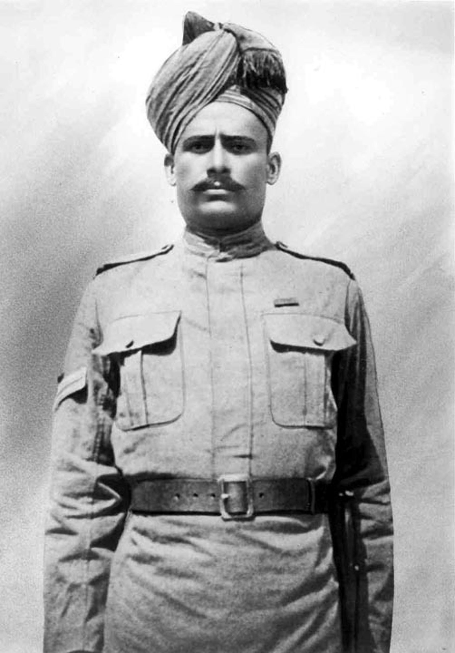 Naik Shahmed Khan, VC, 89th Punjabis (now the 1st Battalion of the Baloch Regiment).